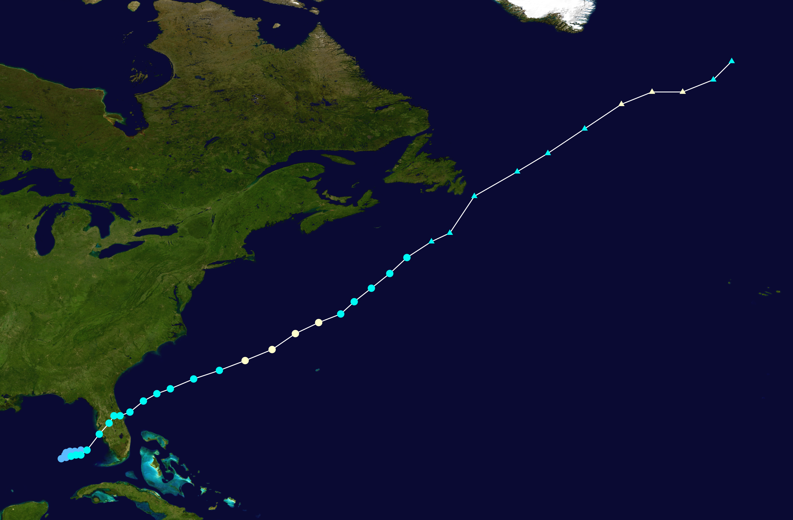 Track map of Hurricane Gabrielle of the 2001 Atlantic hurricane season. The points show the location of the storm at 6-hour intervals. The colour represents the storm's maximum sustained wind speeds as classified in the Saffir–Simpson scale (see below), and the shape of the data points represent the nature of the storm, according to the legend below. Saffir–Simpson scale Tropical depression≤38 mph≤62 km/h Category 3111–129 mph178–208 km/h Tropical storm39–73 mph63–118 km/h Category 4130–156 mph209–251 km/h Category 174–95 mph119–153 km/h Category 5≥157 mph≥252 km/h Category 296–110 mph154–177 km/h Unknown Storm type Tropical cyclone Subtropical cyclone Extratropical cyclone / Remnant low / Tropical disturbance / Monsoon depression